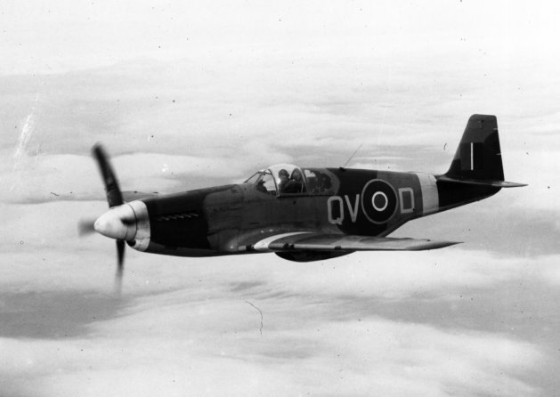 PictionID: 38280469 - Catalog:Array - Title:Array - Filename:15_002379.tif - mage from the Charles Daniels Photo Collection.----Album: Mustangs. SOURCE INSTITUTION: San Diego Air and Space Museum Archive